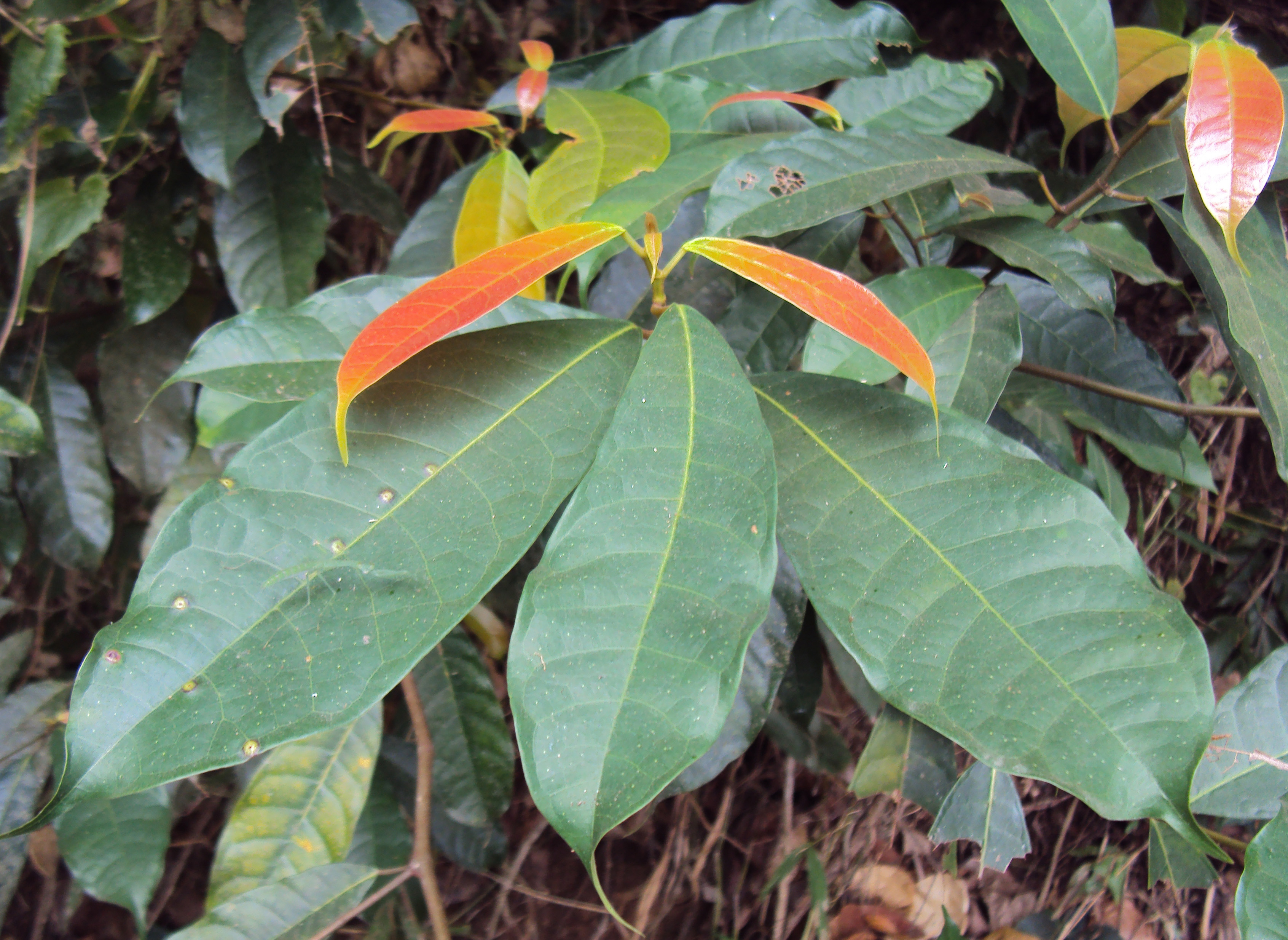 Ficus nervosa